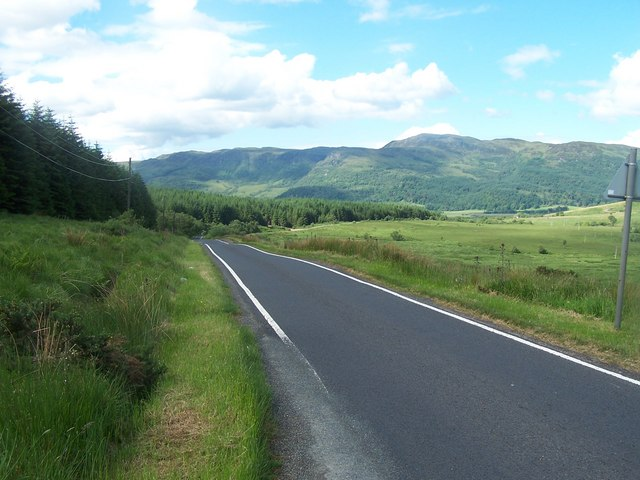 Loch Striven - Colintraive, Road down to Glendaruel.